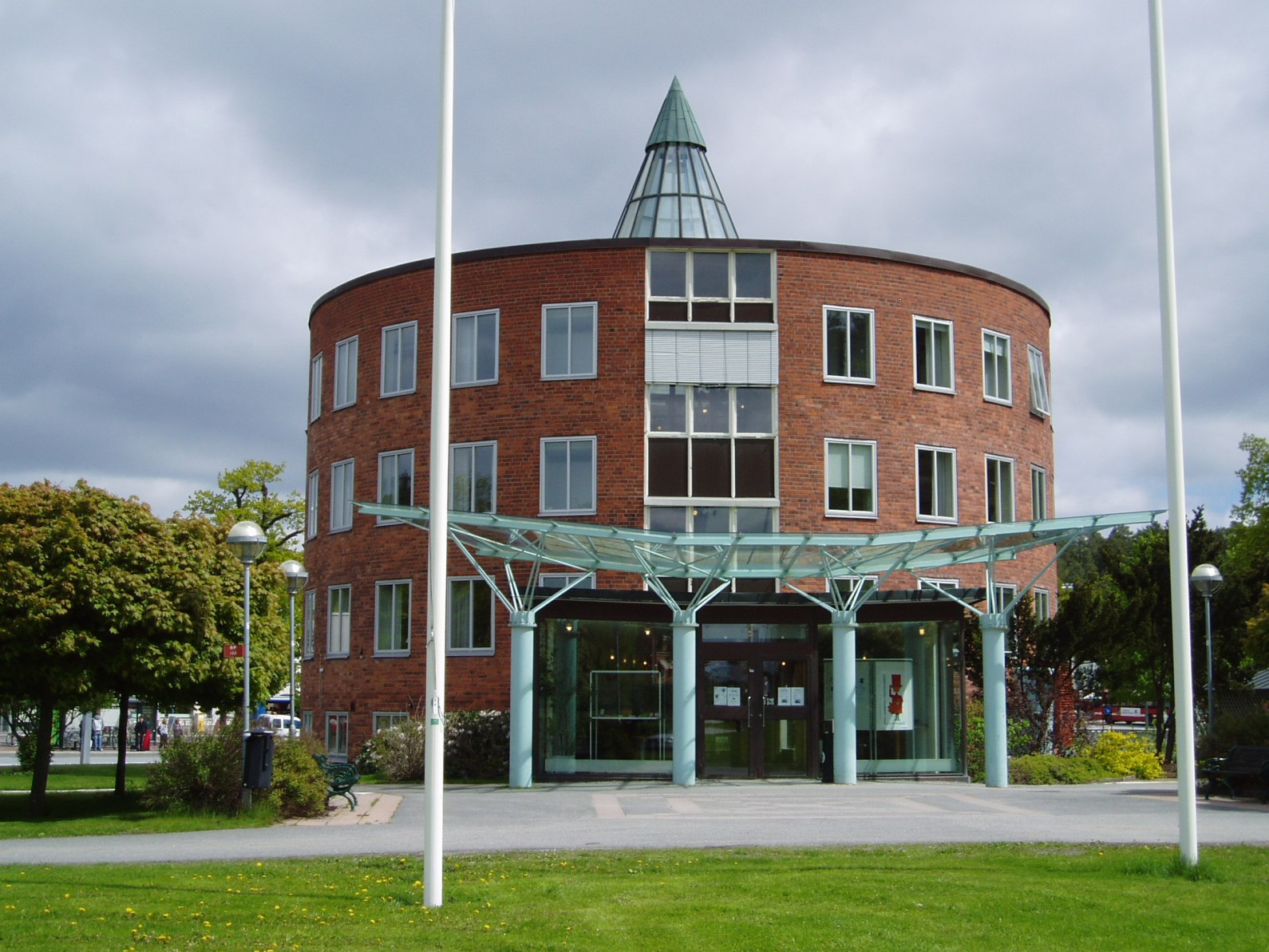 Library, Gustavsberg, Värmdö municipality, Sweden